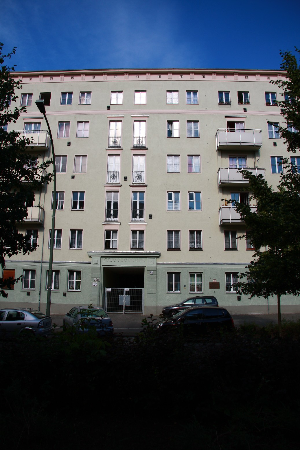 The House of Heinz Galinski at the Schönhauser Allee in Berlin. He was deported from there to the Auschwitz concentration camp in 1943.